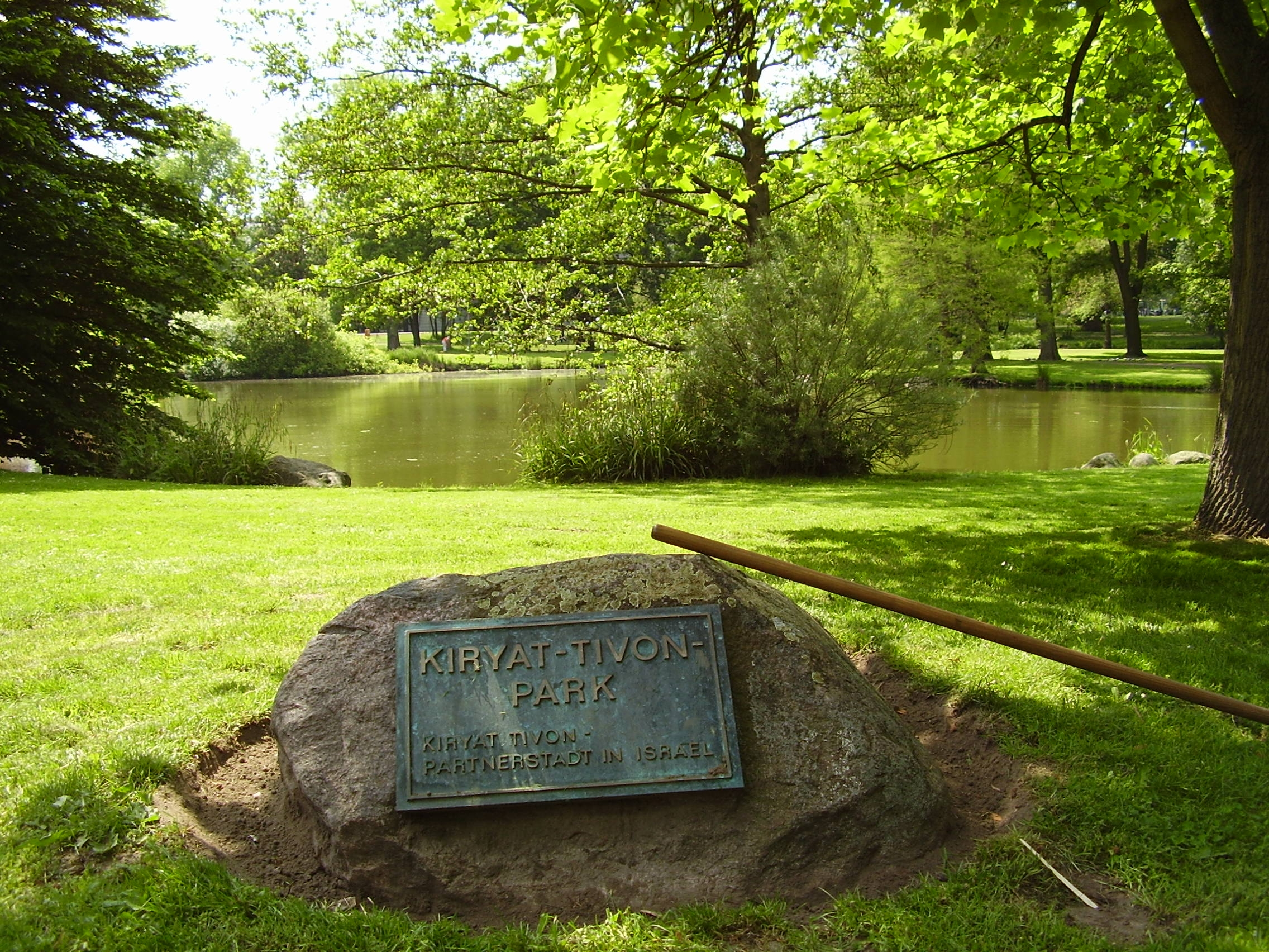 Braunschweig (City) — Kiryat-Tivon-Park — Elevation